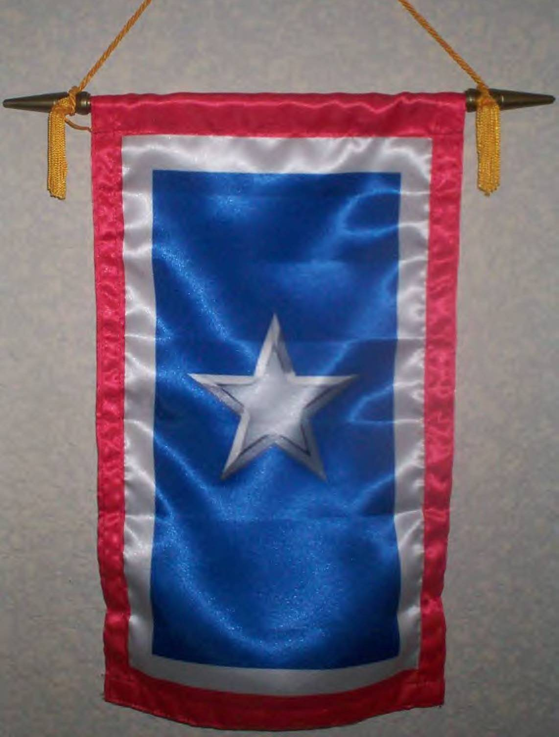 The Silver Star service flag